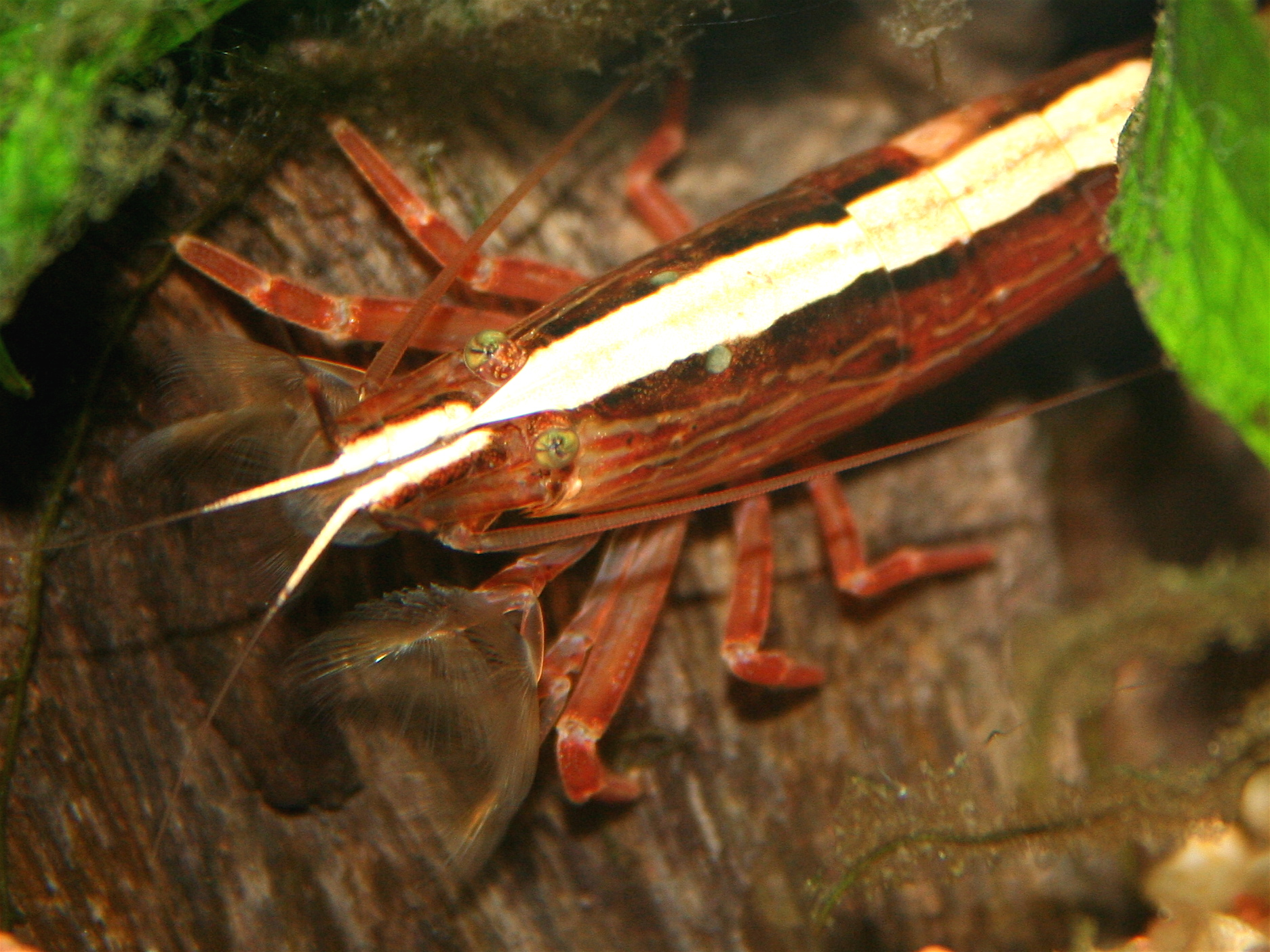 A bamboo shrimp, Atyopsis moluccensis, filter-feeding on a piece of driftwood in my aquarium.